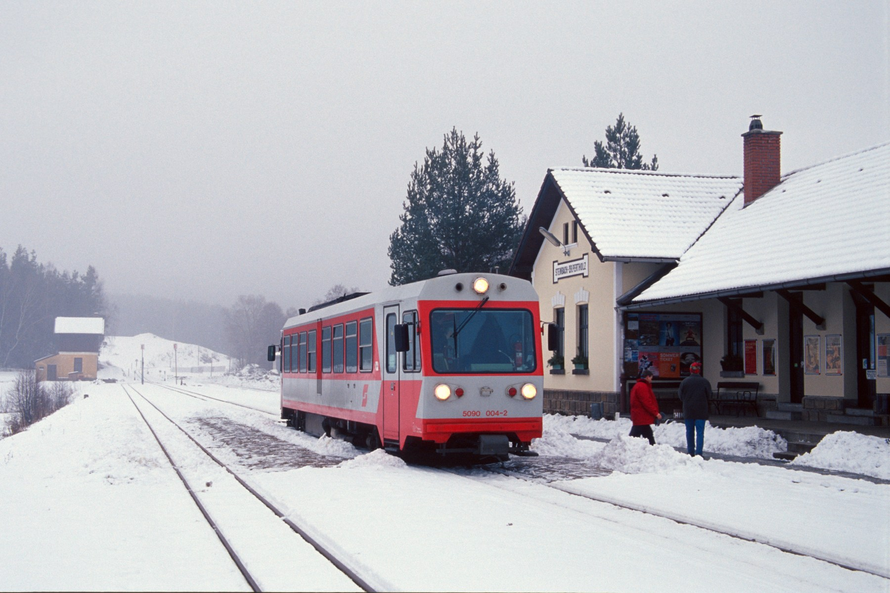 Diesel railcar 5090 004-2 in Steinbach-Groß Pertholz on the southern line of the Waldviertel Narrow Gauge Railways in Lower Austria. This was the last winter of regular operation on the Waldviertel Narrow Gauge lines